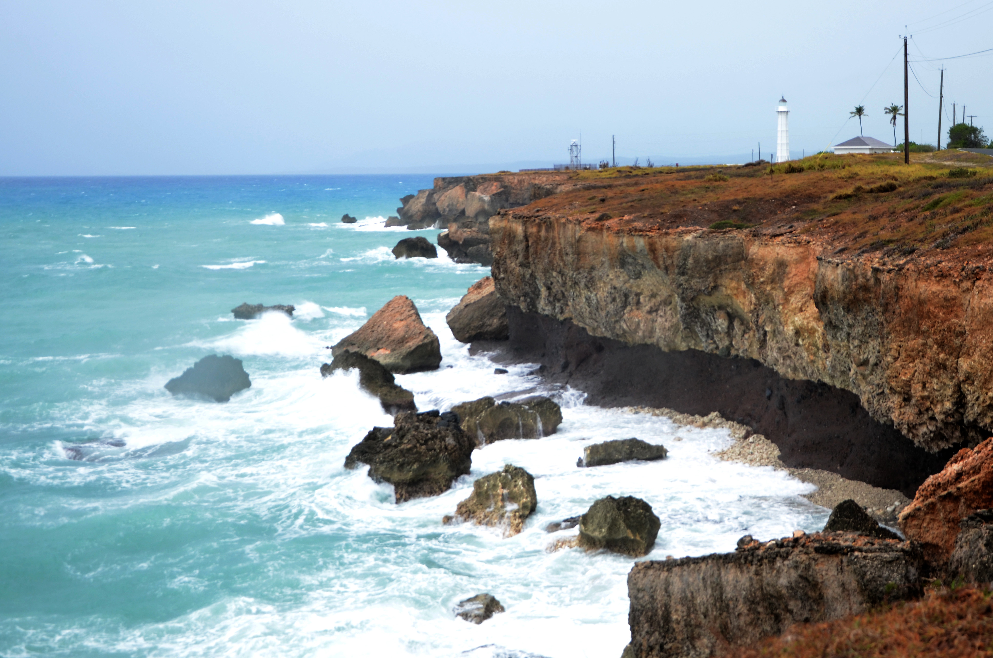 NAVAL STATION GUANTANAMO BAY, Cuba (Oct. 5, 2016) View of cliff erosion and wave size reduction the morning after Hurricane Matthew hit Naval Station Guantanamo Bay. Matthew was a Category 4 hurricane with maximum sustained wind speeds of 145 mph and wind gusts of 170 mph. (U.S. Navy photo by Petty Officer 1st Class Kegan E. Kay/Released) 161005-N-OX321-096 Join the conversation: navylive.dodlive.mil